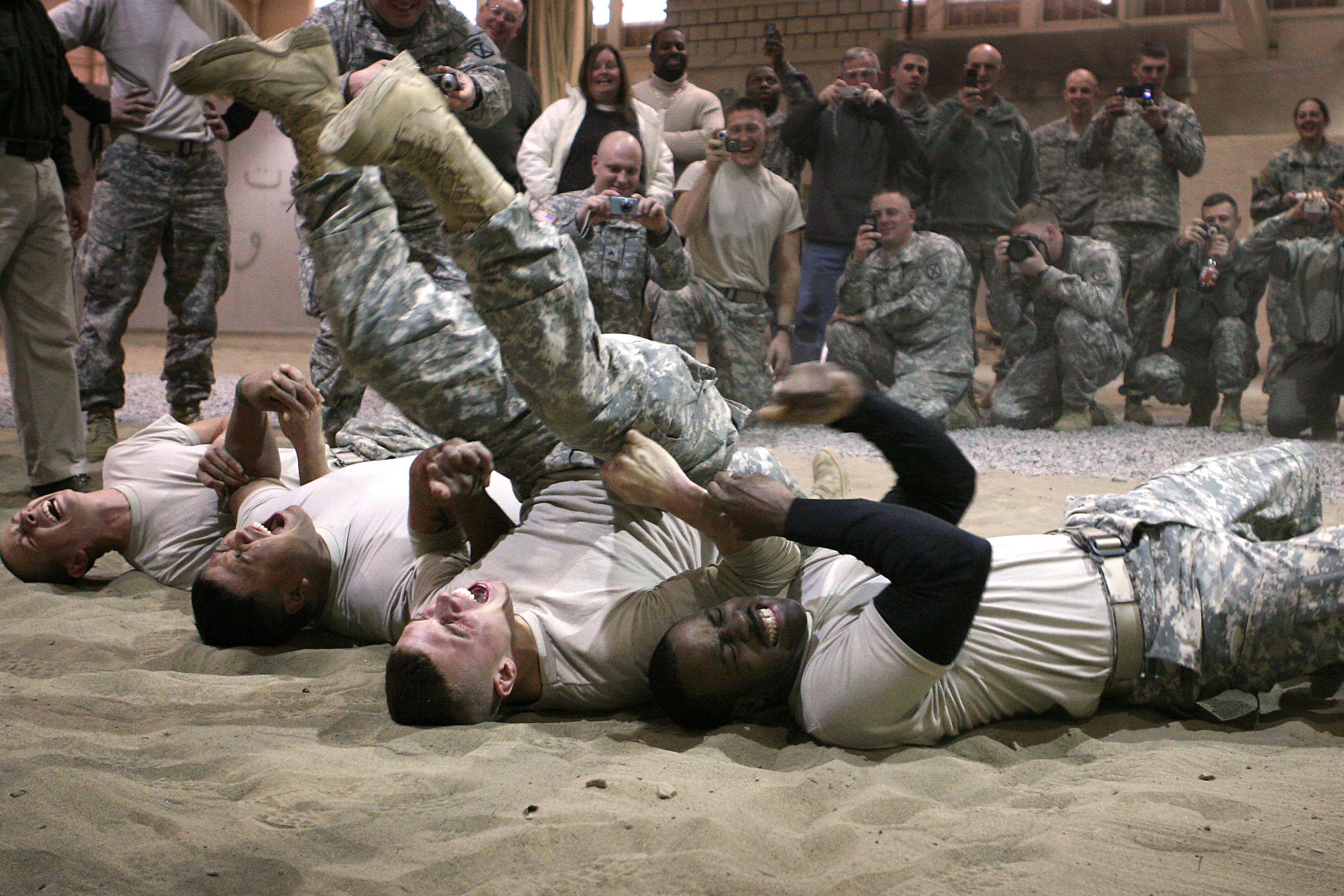 10th Mountain Division soldiers feel the effects of a tazer during non-lethal weapons training Nov. 19, 2008, at Fort Drum, N.Y. Photo by Staff Sgt. Michael J. Carden. See more at Army.mil